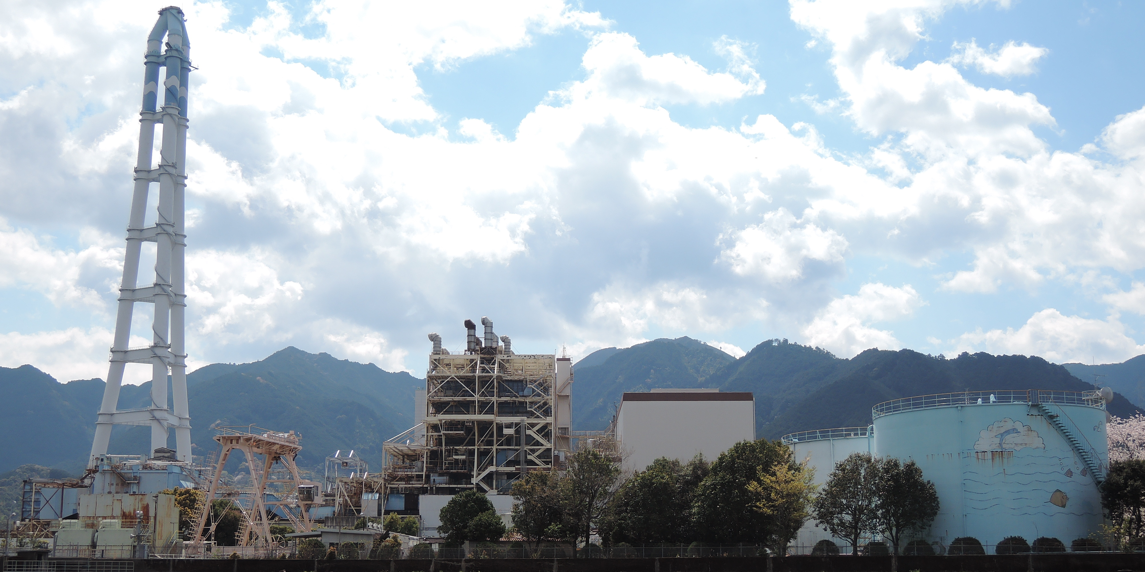 Owase-Mita Thermal Power Station ,Mie prefecture, Japan